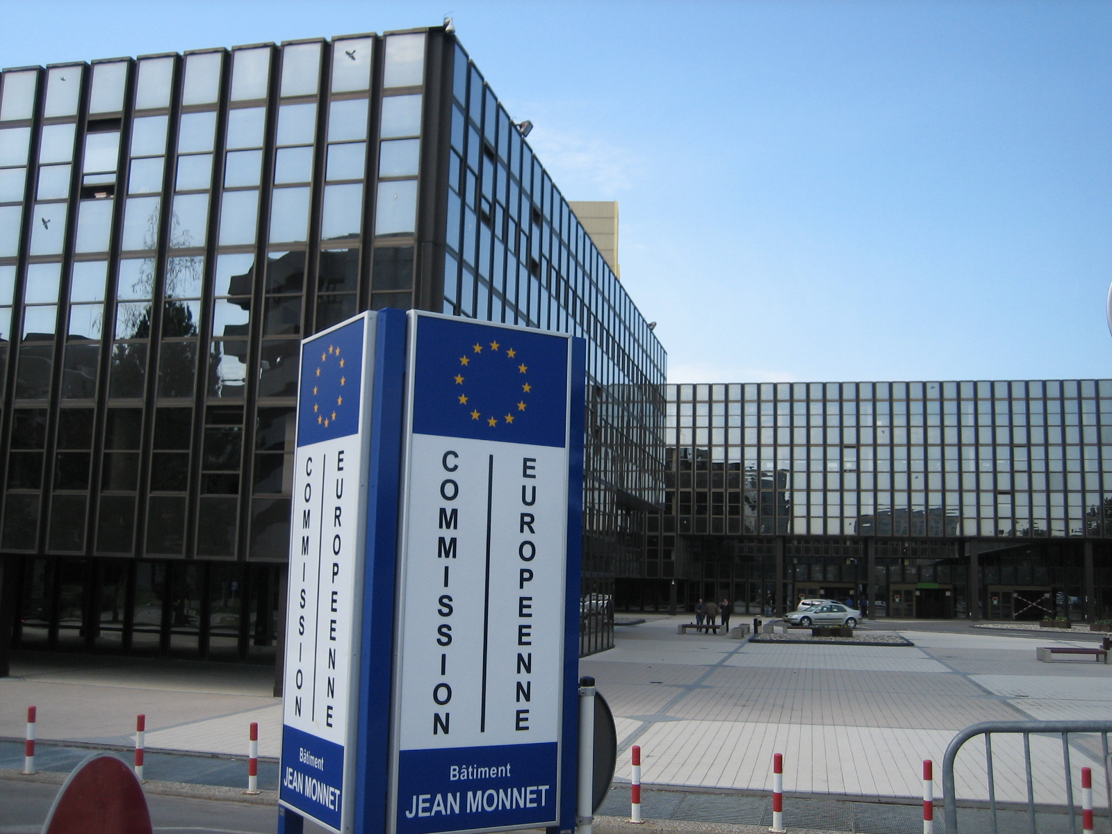 Jean Monnet building, European Commmission, Luxembourg City, Luxembourg